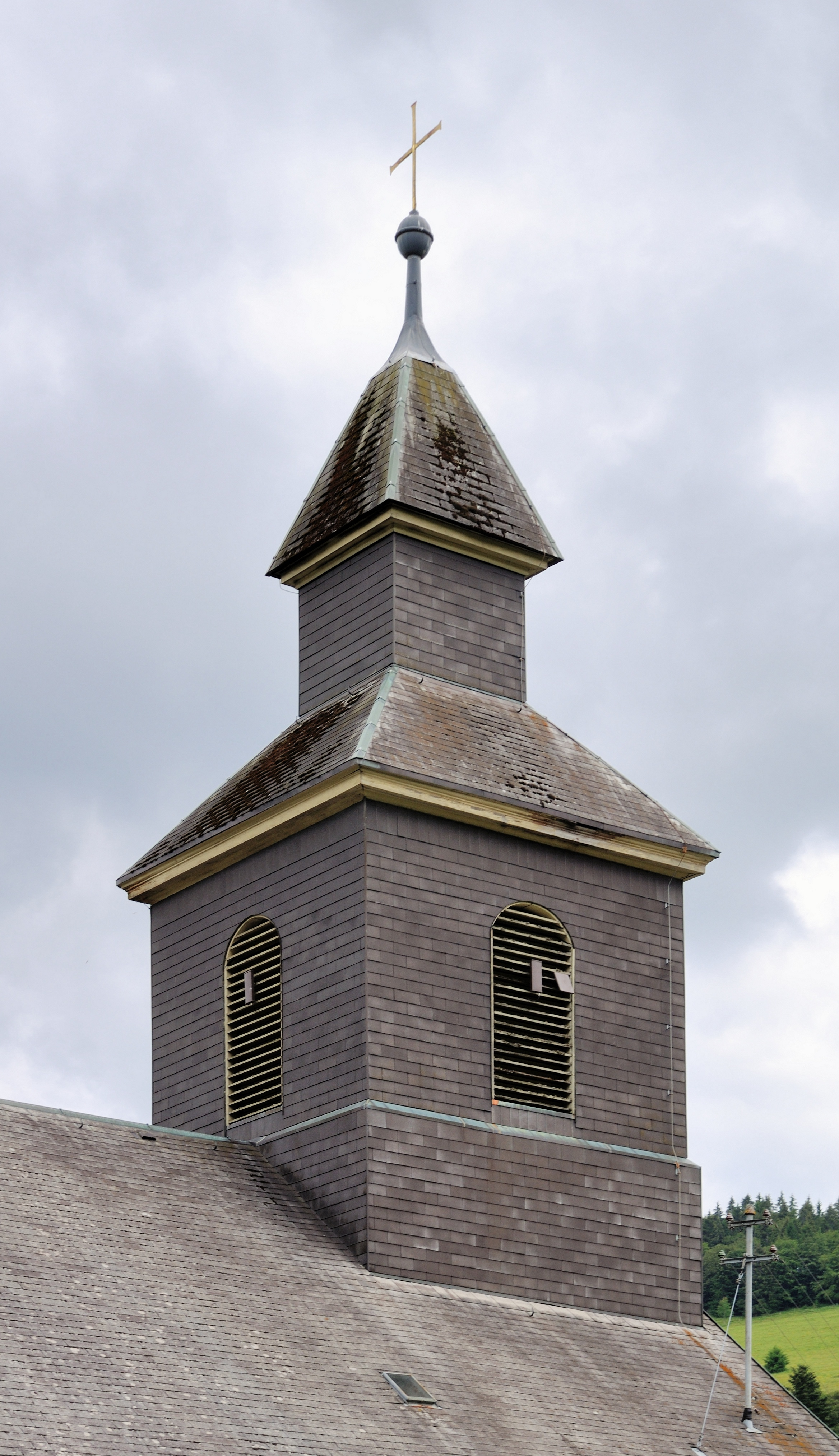 Neuenweg: Protestant Church